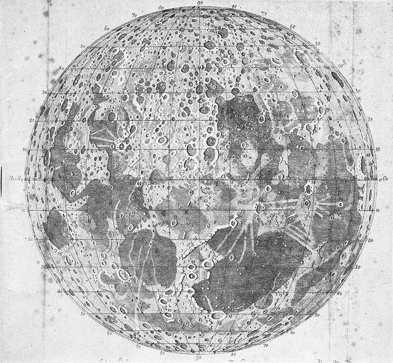 Map of the Moon by Tobias Mayer. Published by Johann Hieronymus Schroeter in 1791. Engraved by Georg Heinrich Tischbein (1753-1848). South up. (Reference for Tischbein: article by Both on Mayer)